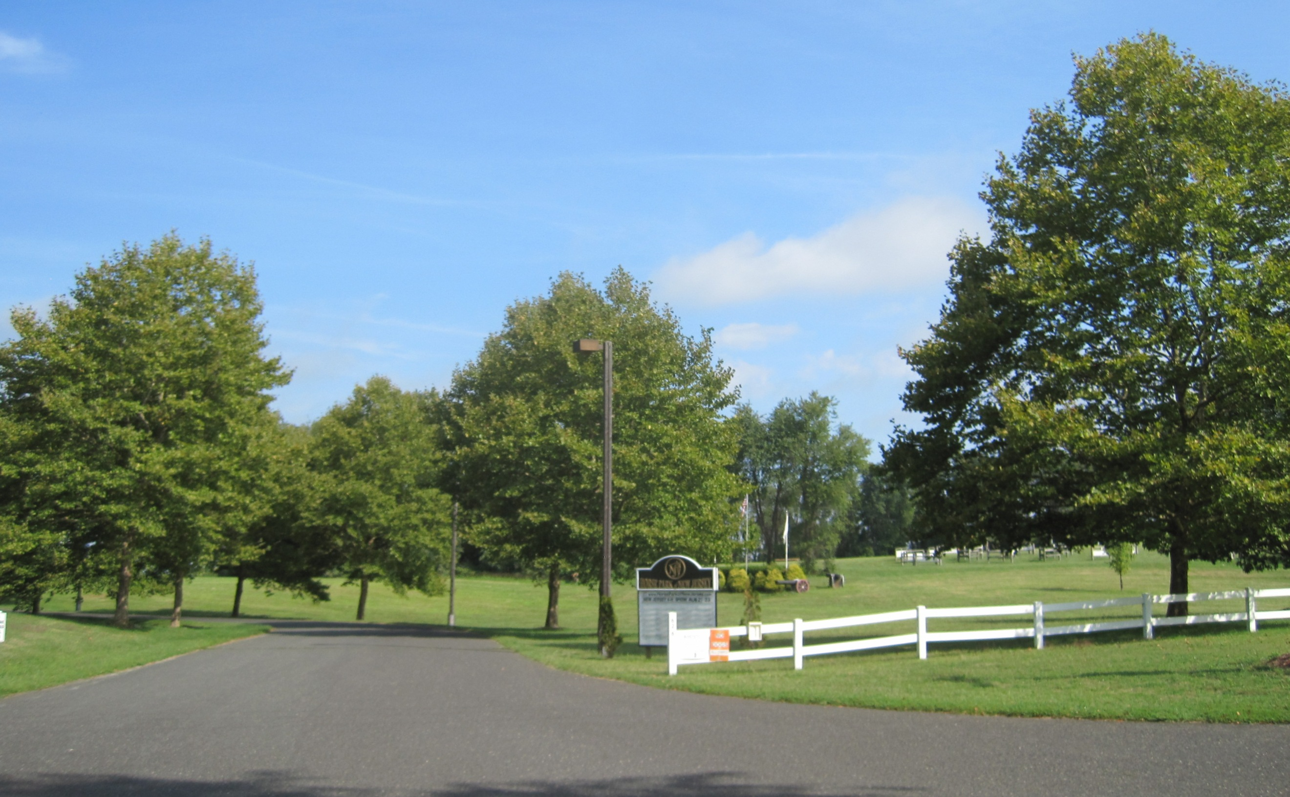 Entrance to the Horse Park of New Jersey in Upper Freehold Township, New Jersey. Photo taken along Stage Coach Road (County Route 524).